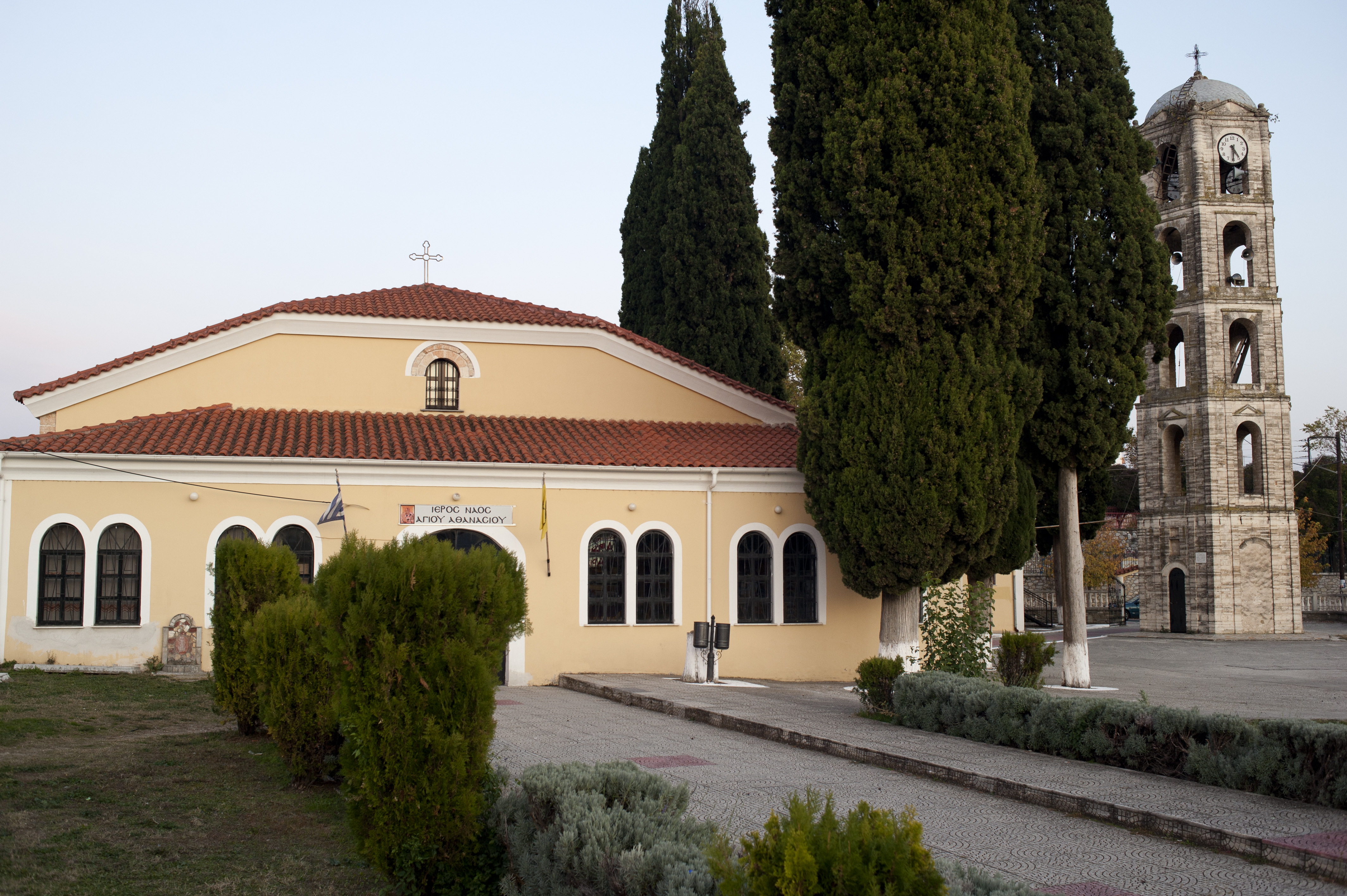 Church of Agios Athanasios in the village of Alistratis, Serres Prefecture, Greece.